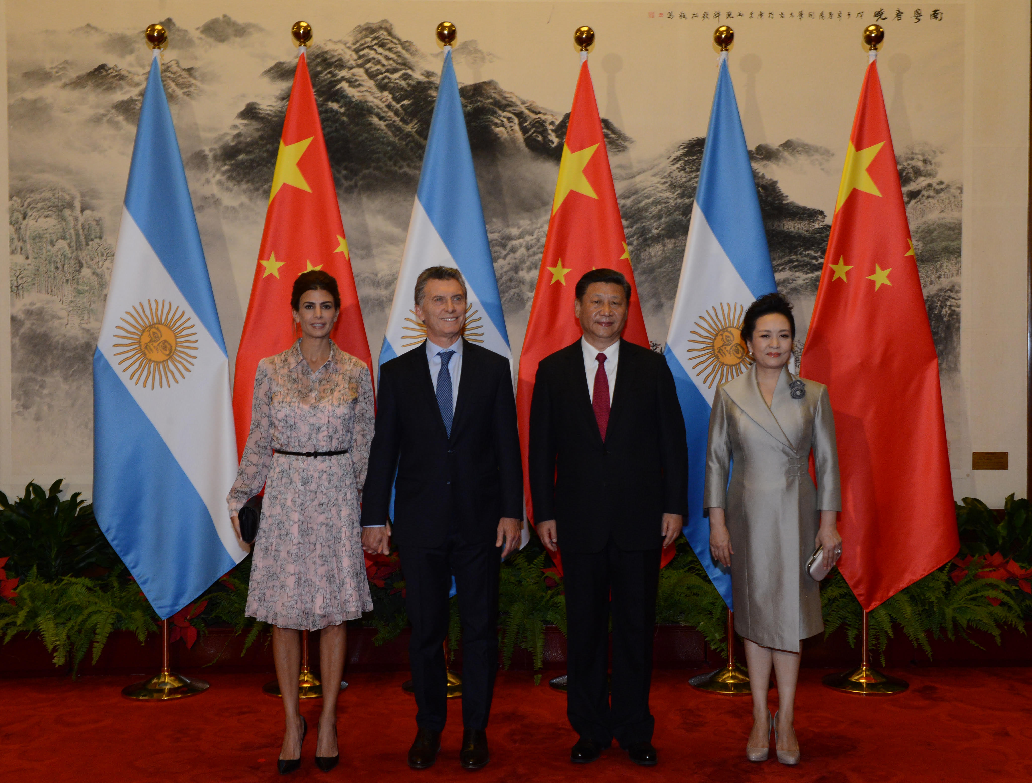 Mauricio Macri, President, and Juliana Awada, spouse of Mauricio, met Xi Jinping, President, and Peng Liyuan, spouse of Jinping, at the Great Hall of the People in Beijing on 17 May 2017.